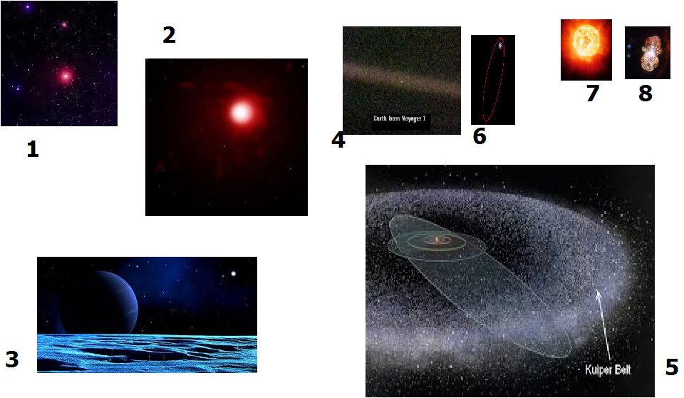 These are examples of 8 things in the Terameter group. 1. Antares 2. VY Canis Majoris 3. Distance from Neptune to Sun 4. Distance from Voyager 1 to Earth 5. The Kuiper Belt 6. Distance from Sedna to Sun (furthest) 7. Betelgeuse 8. Homunculus Nebula